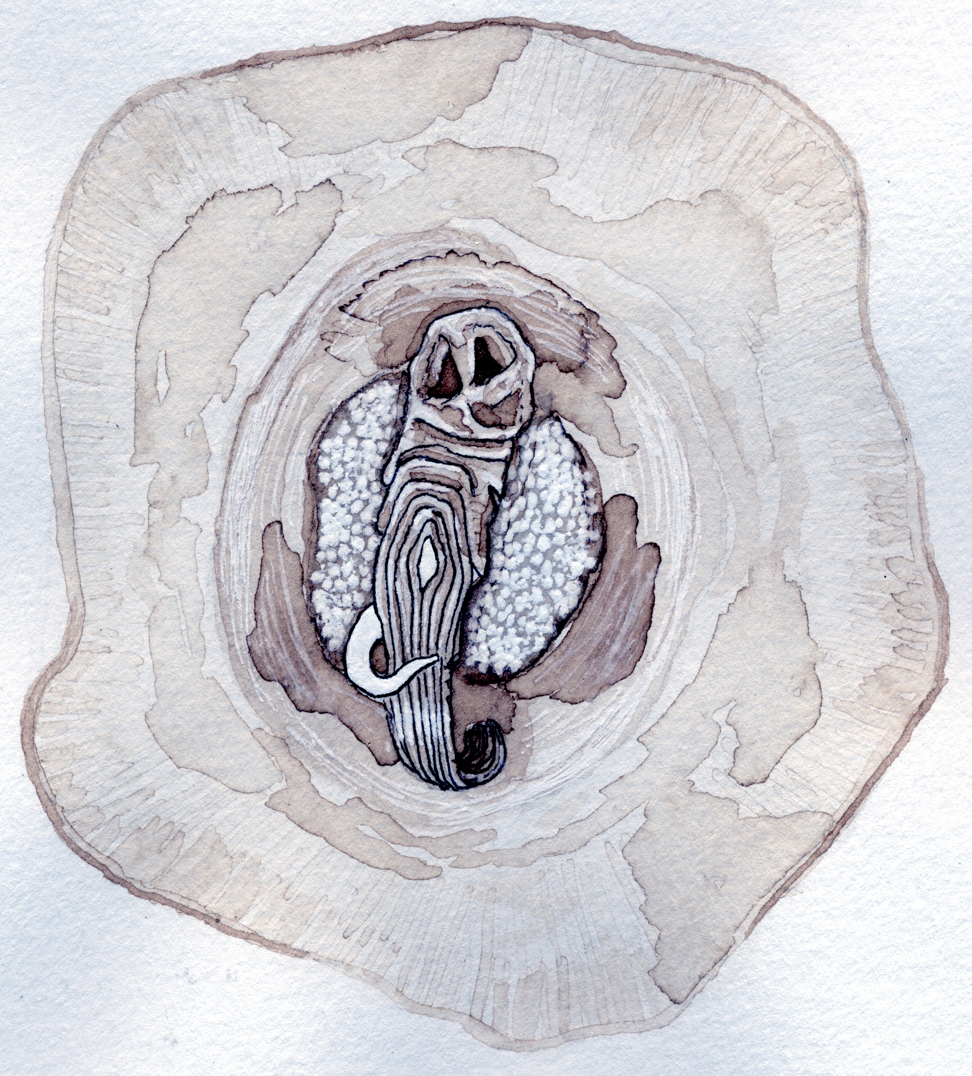 Illustration of Chelonibia testudinaria hermaphrodite, bottom view. Illustrated from direct observation. Materials used: espresso, ink, micron.